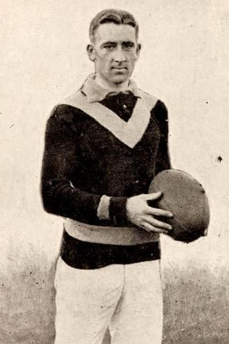 Photograph of Ted Cordner from the 1910 Weekly Times Victorian Footballer Postcard Series